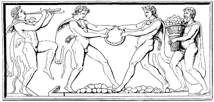 Satyrs, pressing grapes by dancing